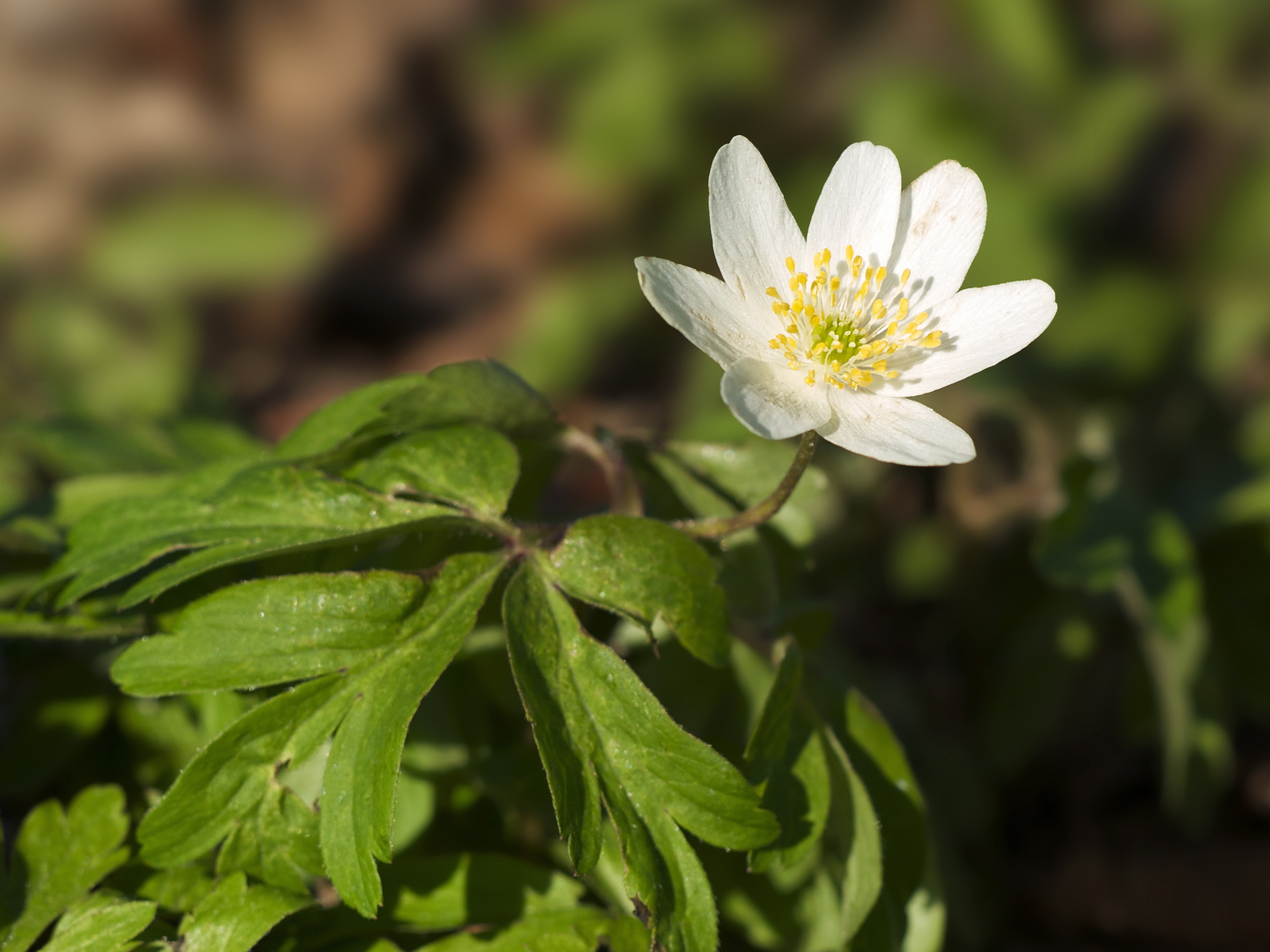 wood anemone (Anemone nemorosa), Chemnitz, Germany